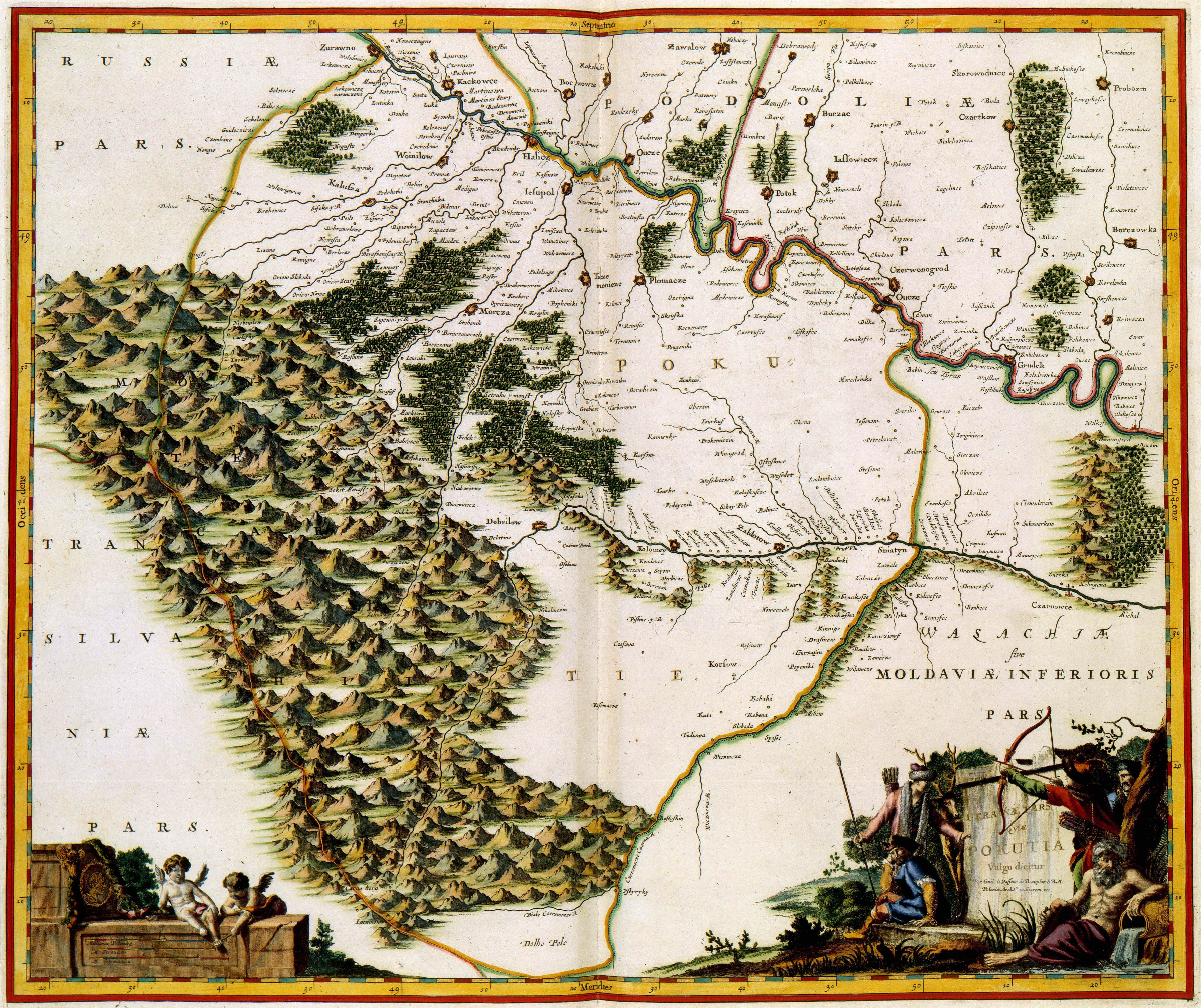 Ukraine.